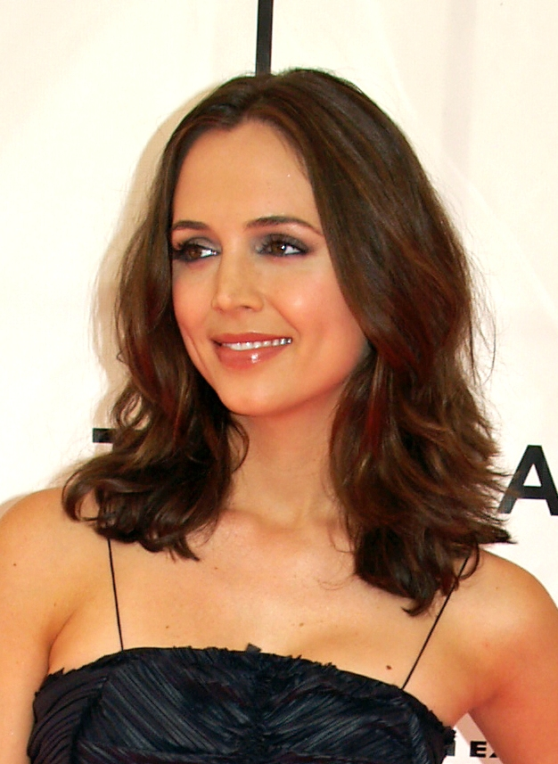 Eliza Dushku at the 2007 Tribeca Film Festival.